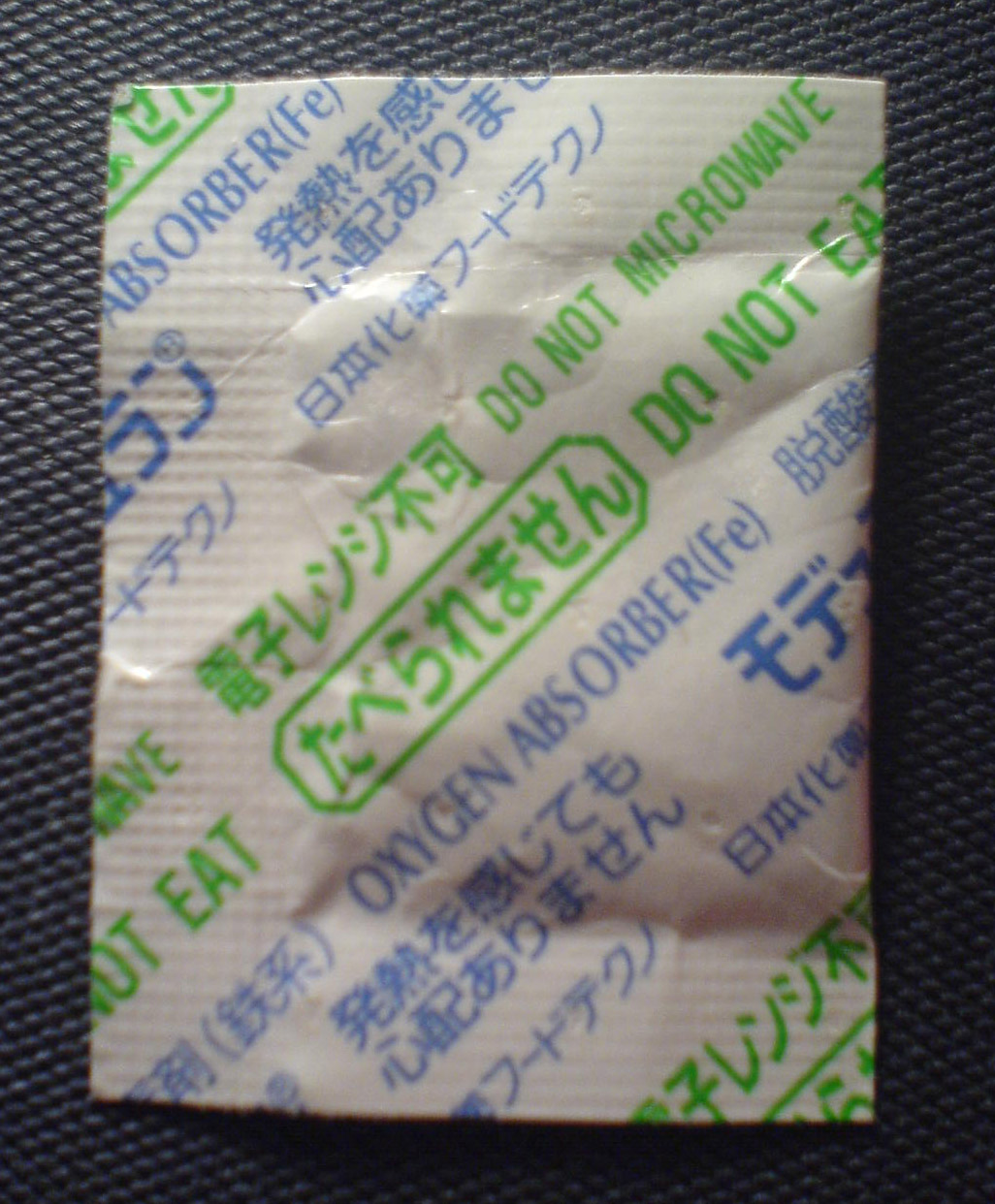 This oxygen absorber was found inside an individually wrapped miniature cake from Japan. Made by Nippon Kayaku Food Techno(日本化薬フードテクノ).